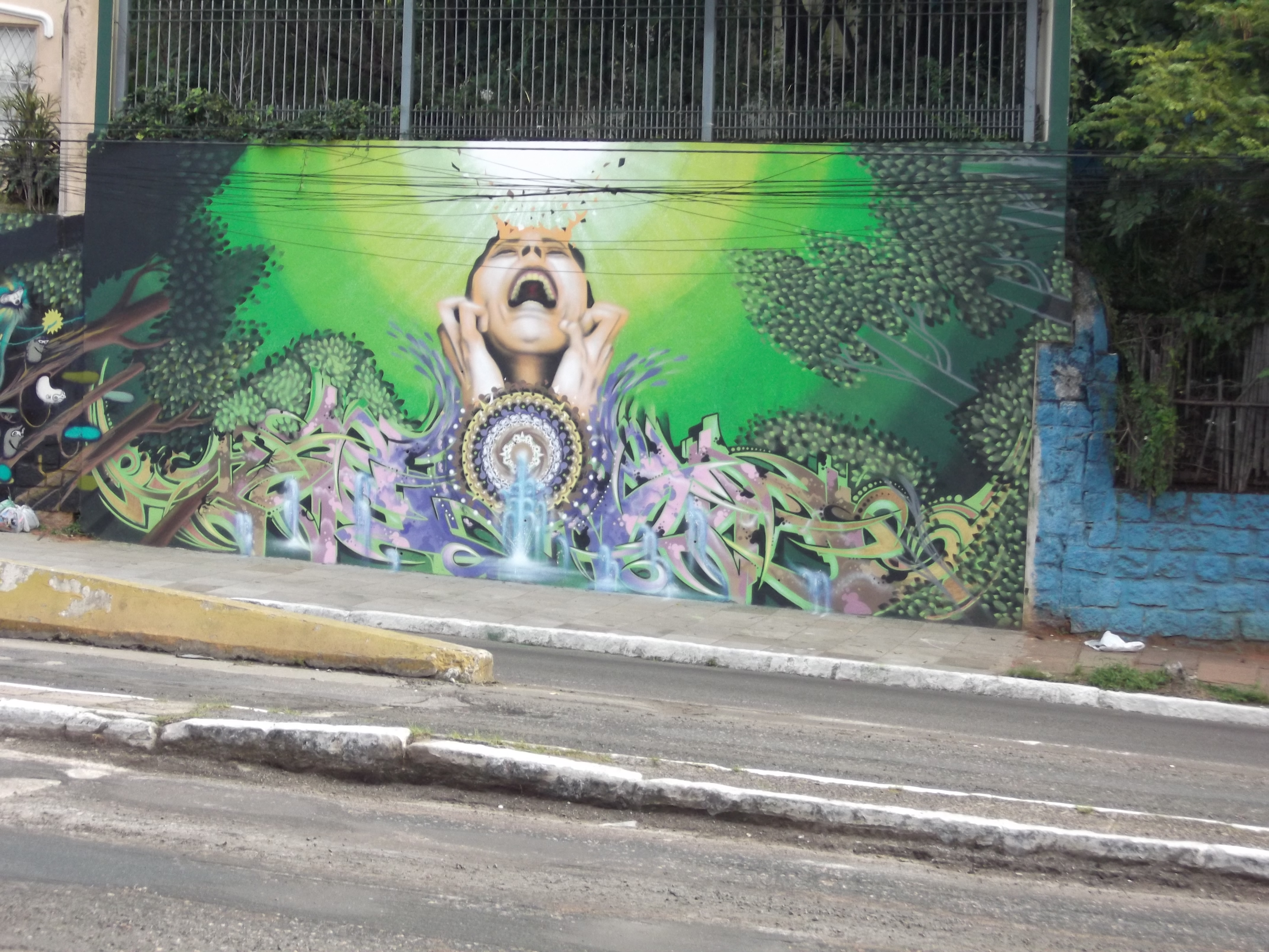 Graffiti in Porto Alegre